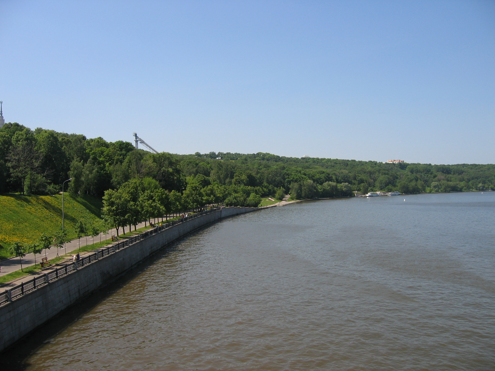 View of Moscow's Sparrow Hills